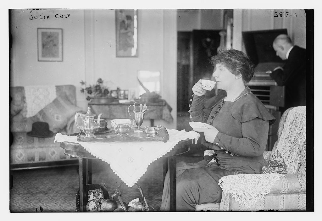 Julia Culp circa 1915